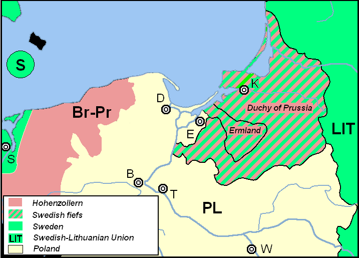 Prussia during the Second Northern War